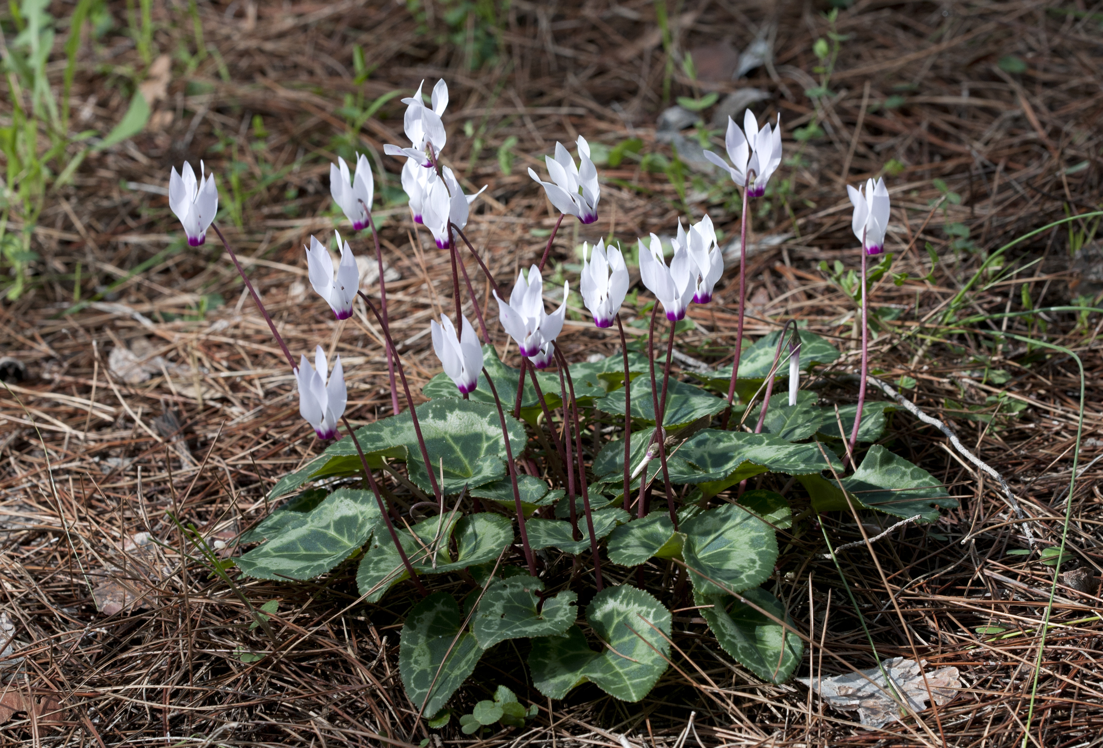 Persian cyclamen (Cyclamen persicum).